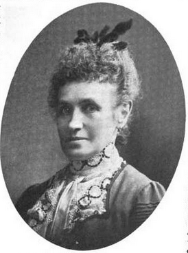 Mrs. W. W. Stickney, of Ludlow, wife of the Governor of Vermont. Photo by Brush, Rutland.